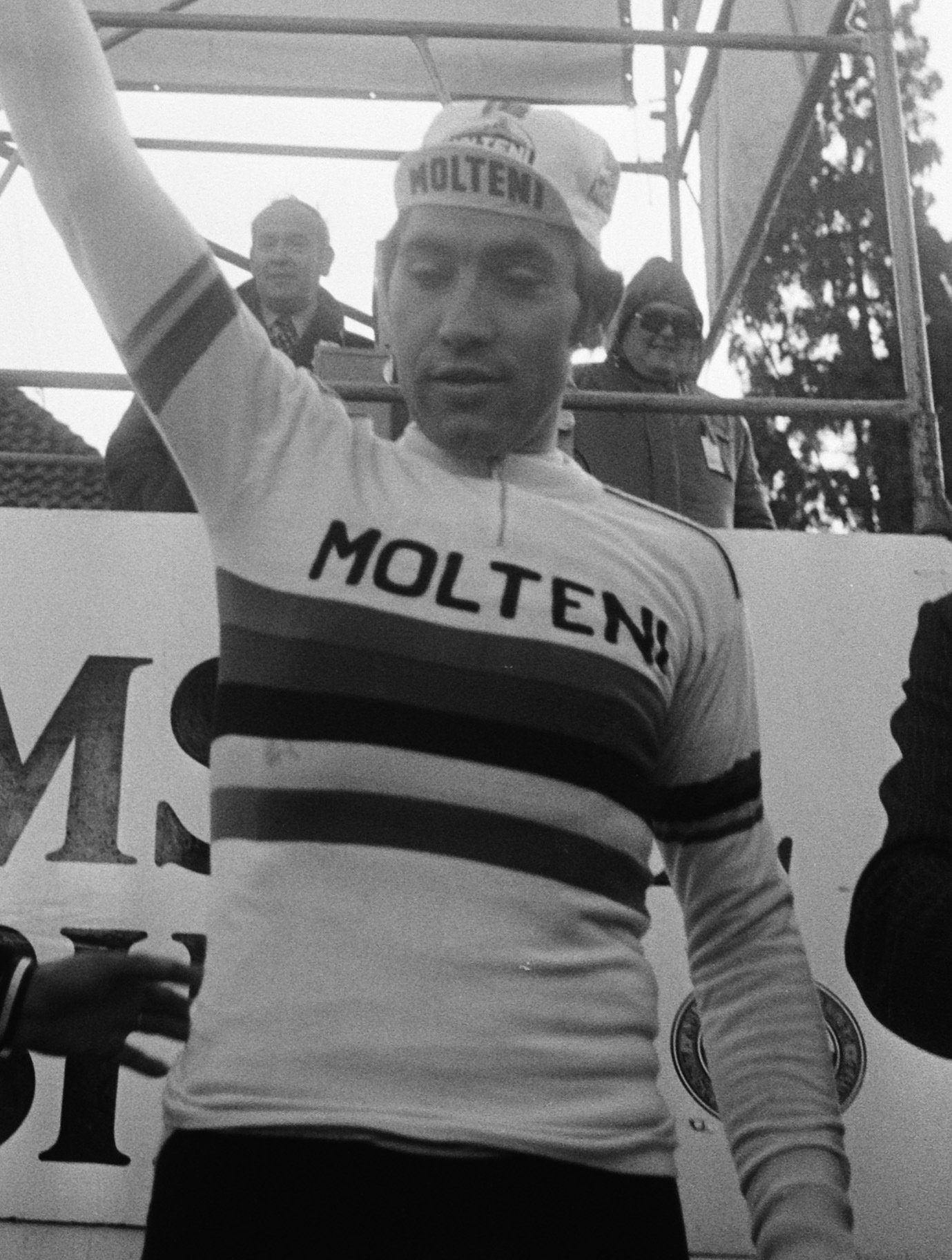 Eddy Merckx after having won the Amstel Gold Race in 1975.